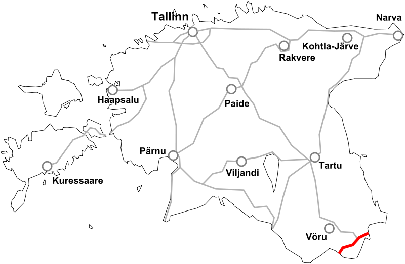 Map of Estonian national road 7, white background. Bigger cities marked.